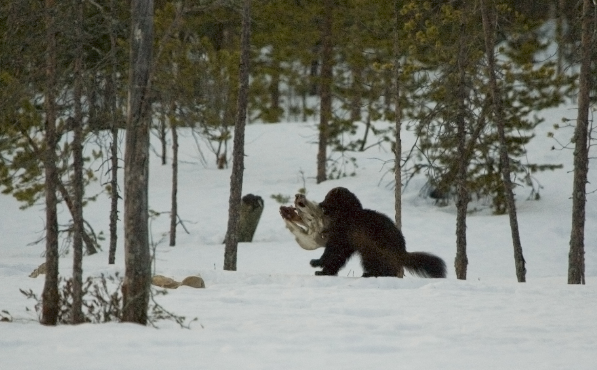 Wolverine (Gulo gulo).